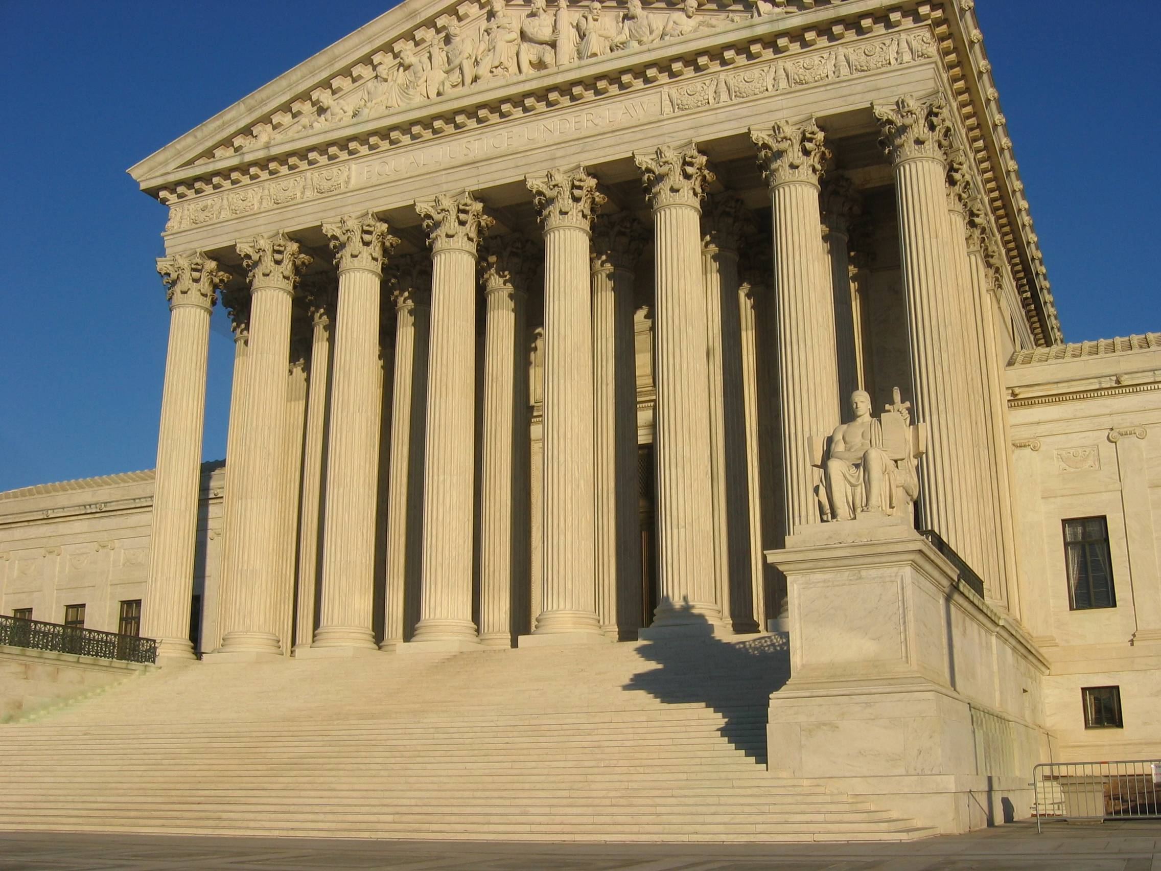 US Supreme Court building, front elevation, steps and portico.